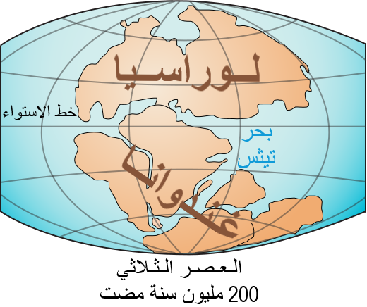 The continents Laurasia-Gondwana 200 million years ago.